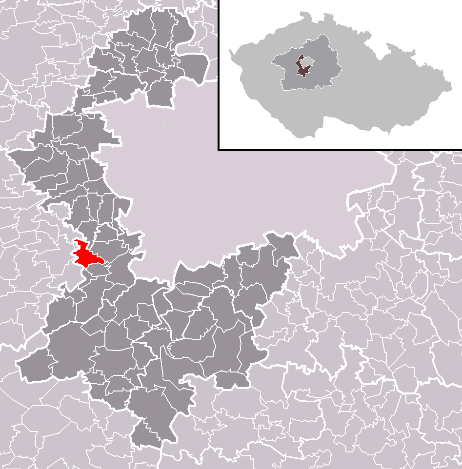 Location of Roblín municipality within Prague-West District and administrative area of Černošice as a Municipality with Extended Competence.